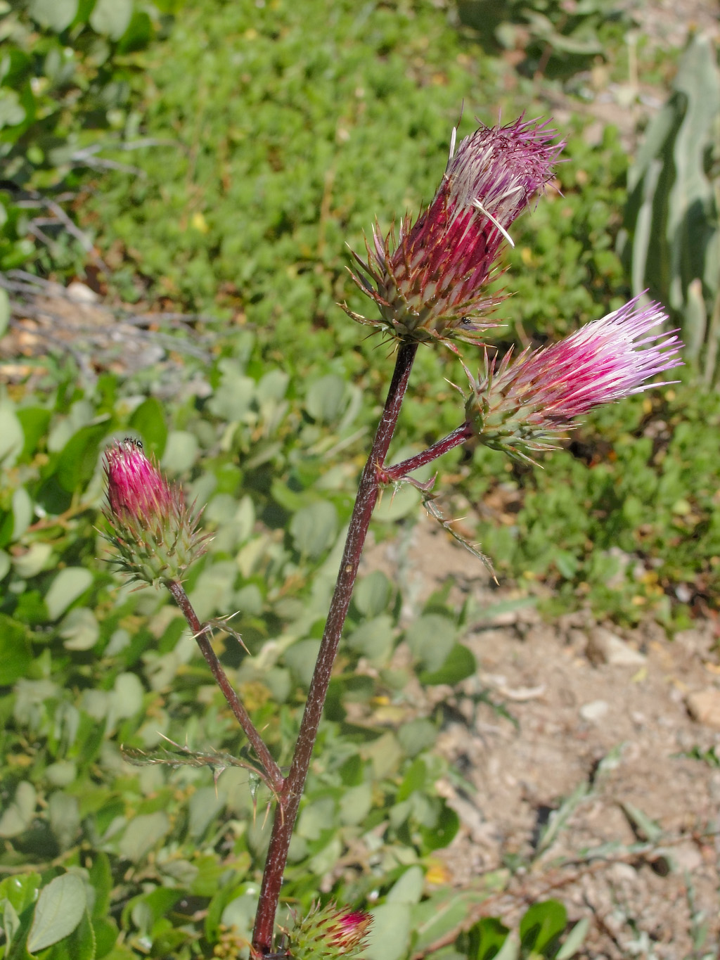 Cirsium andersonii in Tahoe National Forest, California, USA.